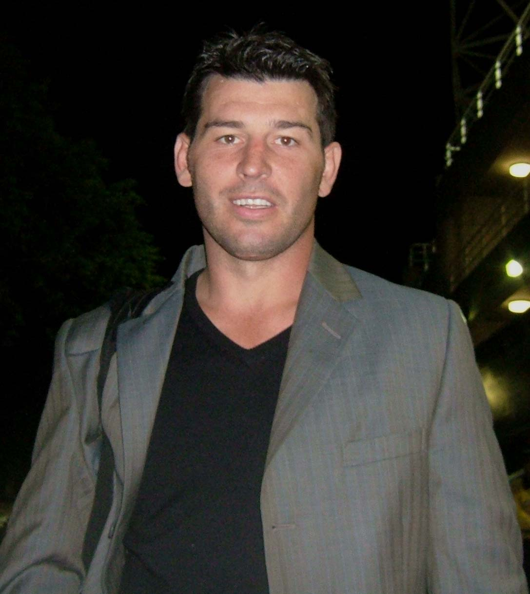 The Penrith-born Halfback Craig Gower (now rugby union player for Italy) Sydney Football Stadium 2005